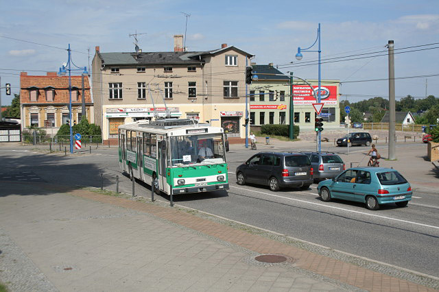 Preserved Eberswalde trolleybus 3 (ex-Potsdam 976), a 1983-built Skoda 14Tr, at Kleiner Stern (6 km from Eberswalde) during a special event in 2010 celebrating the 70th annniversary of the Eberswalde trolleybus system.